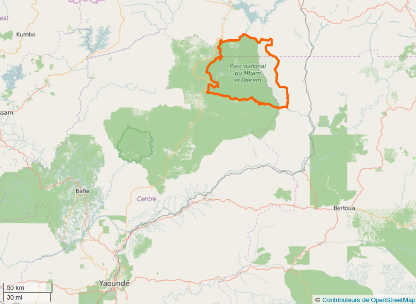 Mbam Djerem National Park, Cameroon. (OSM) This map may be incomplete, and may contain errors. Don't rely solely on it for navigation.